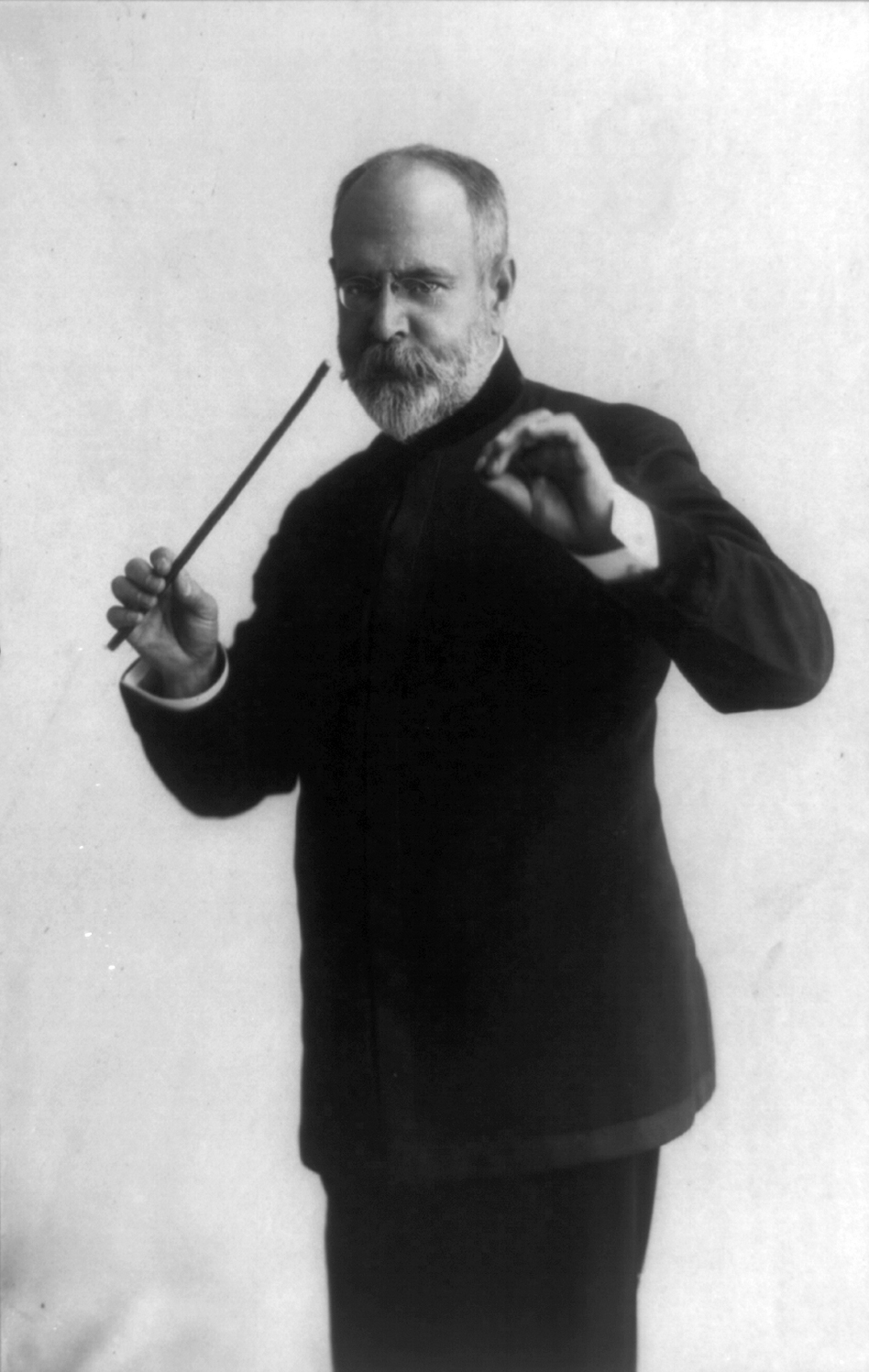 American composer John Philip Sousa standing, facing slightly left; holding up baton.